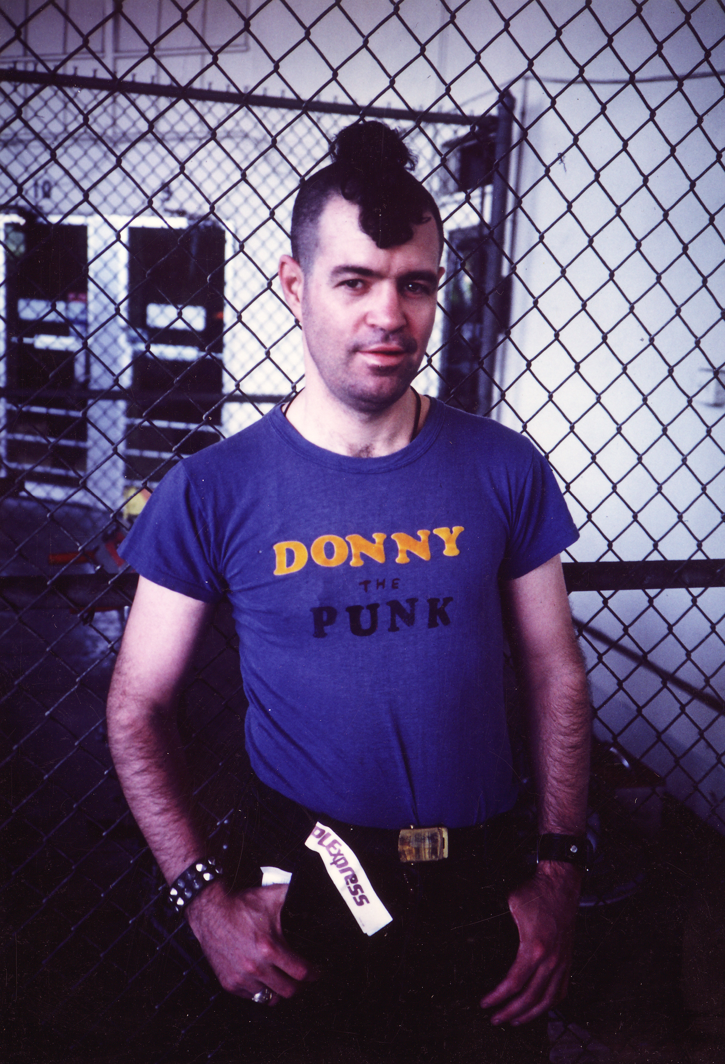 Stephen Donaldson (aka Donny the Punk, Robert Anthony Martin) at the Oakland, California, airport, July 1984